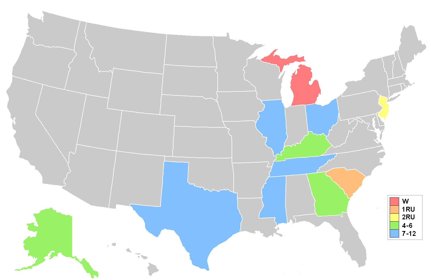 Map showing placements at the Miss USA 1990 pageant. Key on graphic shows colour coding for break down of placements.